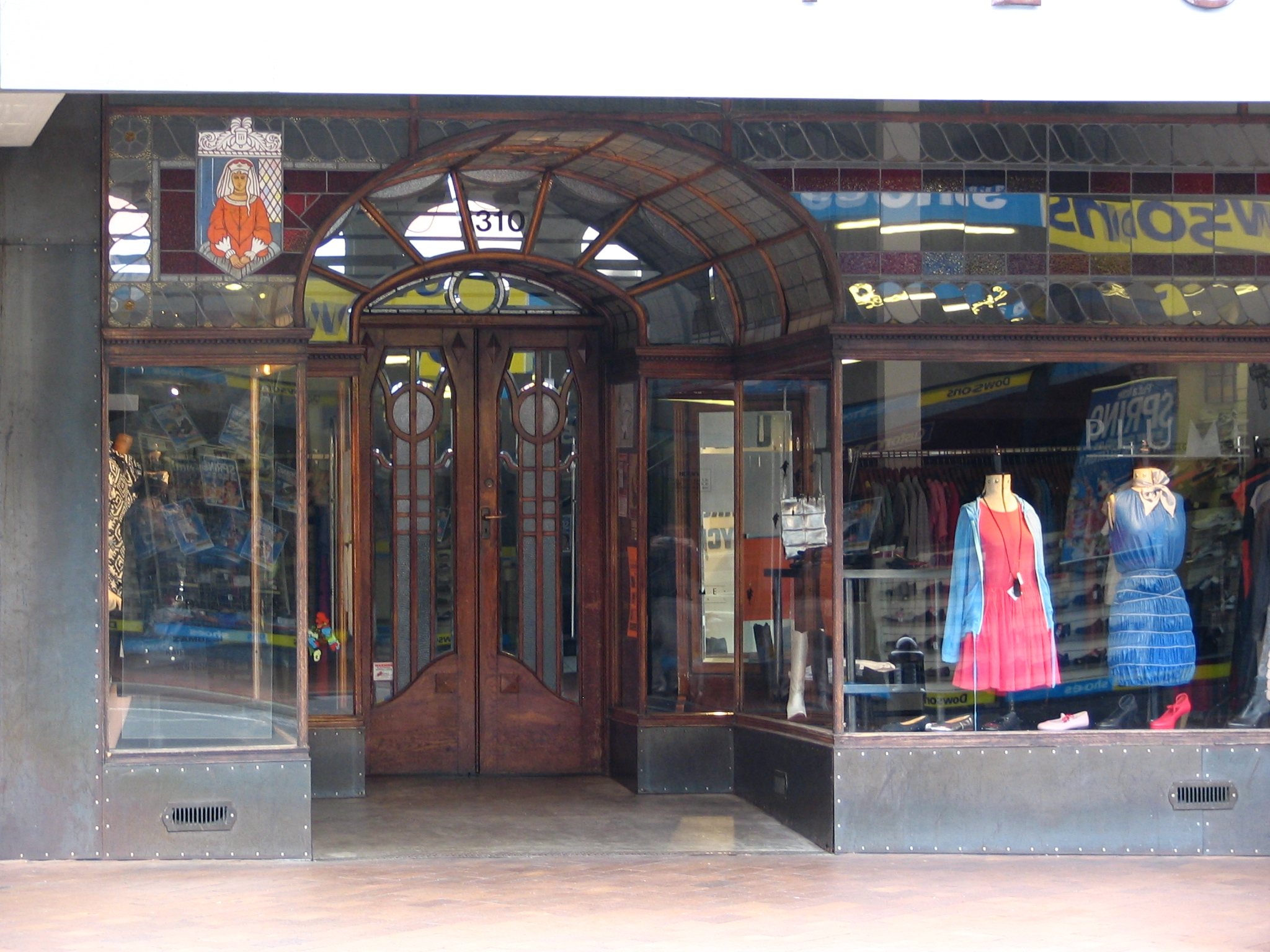 Entrance to Plume Clothes Shop on George Street, Dunedin, New Zealand